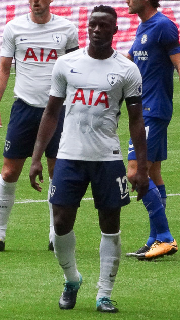 Victor Wanyama playing for Tottenham Hotspur in 2017